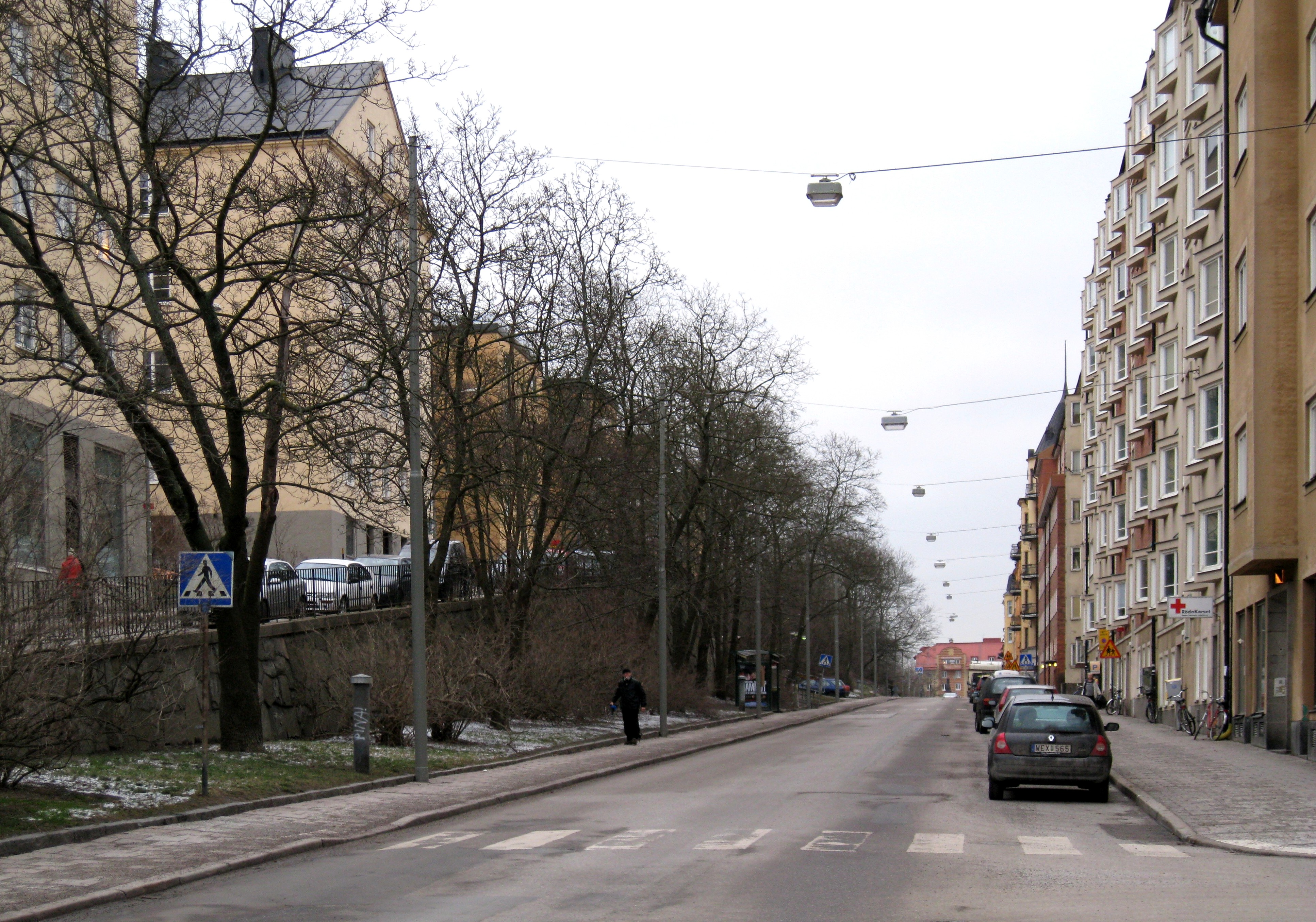 Lundagatan in Stockholm, Sweden